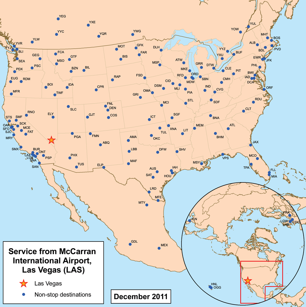 This is a route map for McCarran International Airport serving Las Vegas as of February 2007. Map is an Azimuthal equidistant projection centered on the airport so straight lines from Las Vegas are along great circle routes. Source.